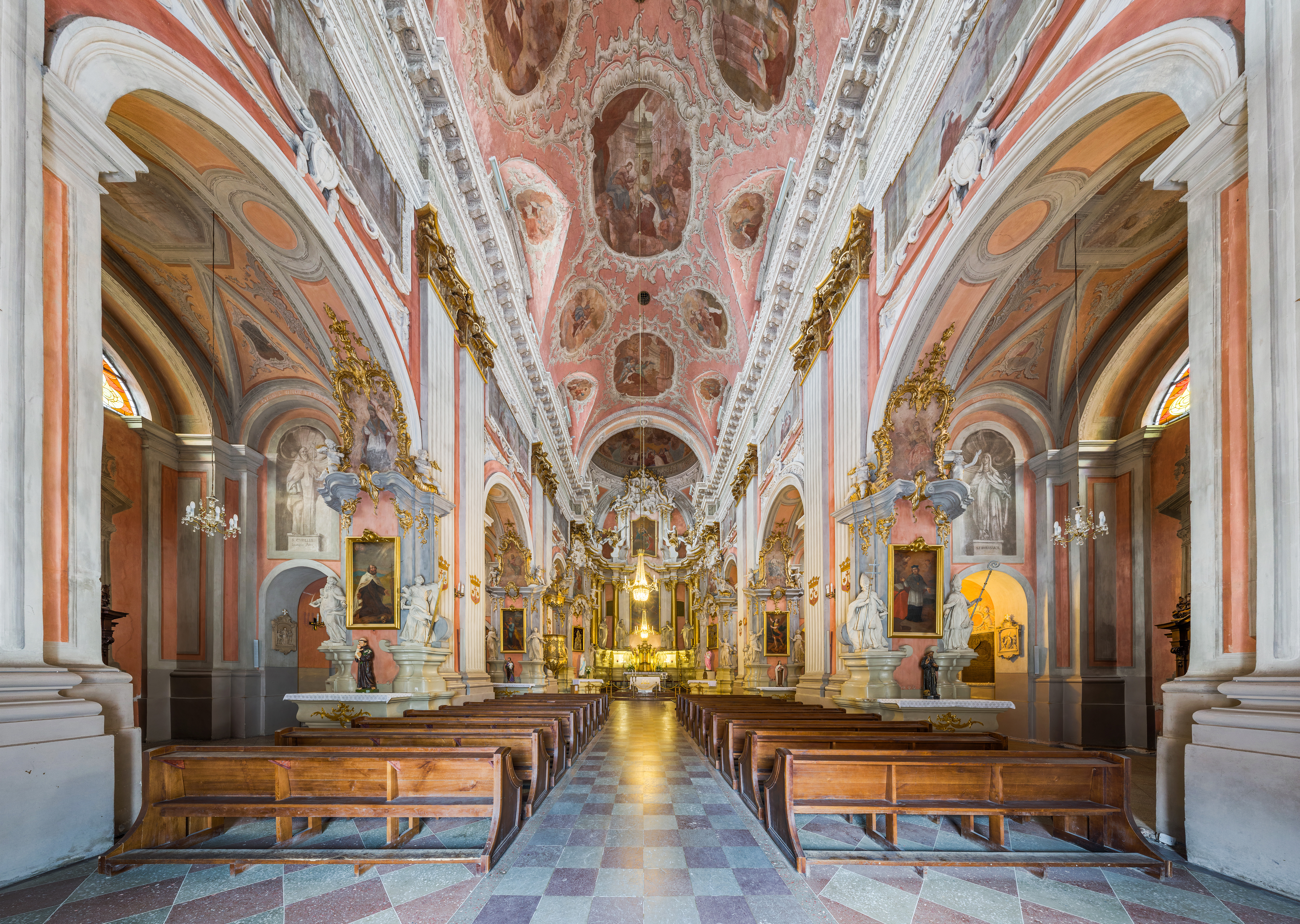 The church of St. Teresa, Vilnius, Lithuania.